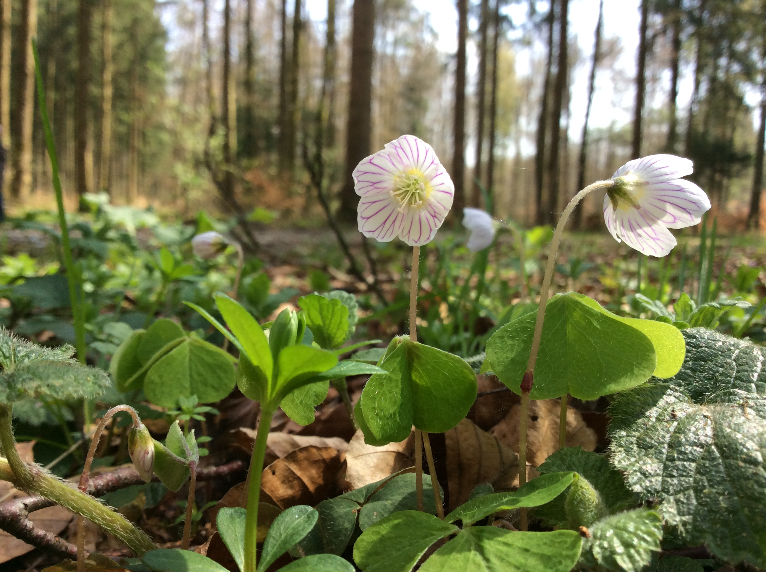 Oxalis acetosella in flower. Bremgartenwald, Canton of Bern, Switzerland.